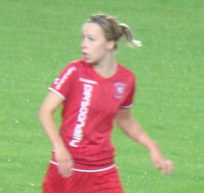 FC Twente player Maayker Heuver